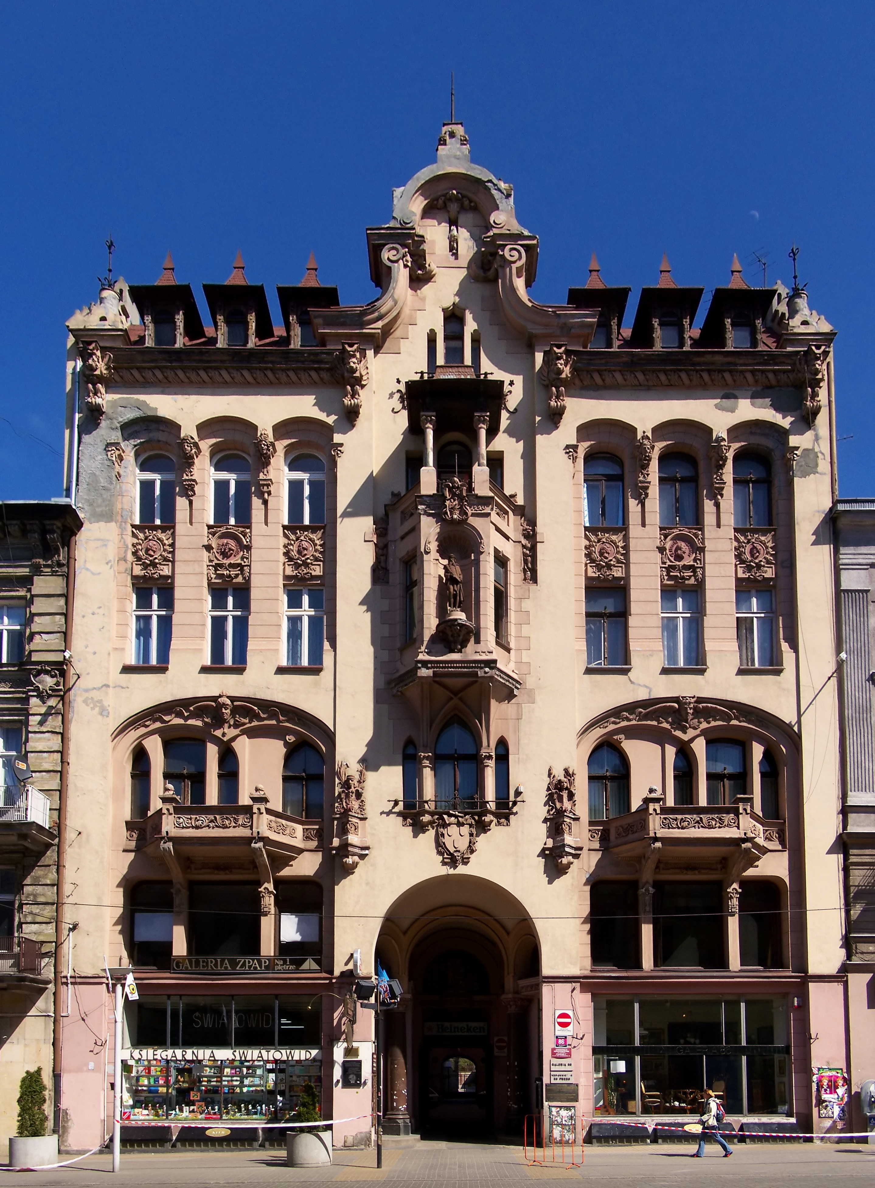 Tenement house on the Piotrkowska Street in Łódź (Poland).